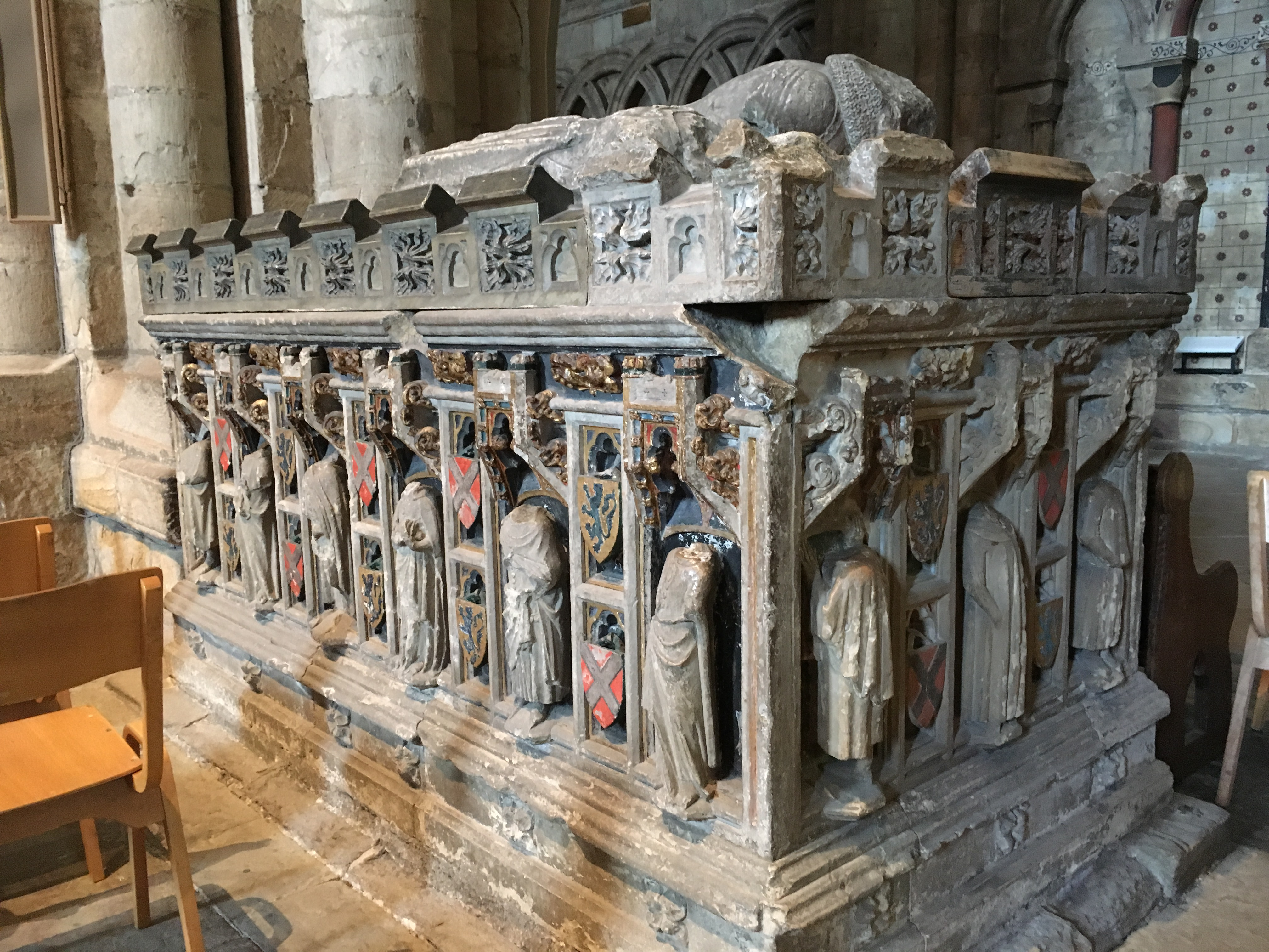 Highly-damaged and partially-reconstructed tomb of John Neville, 3rd Baron Neville de Raby and his first wife, Maud Percy, in Durham Cathedral. (Not an ideal photo).